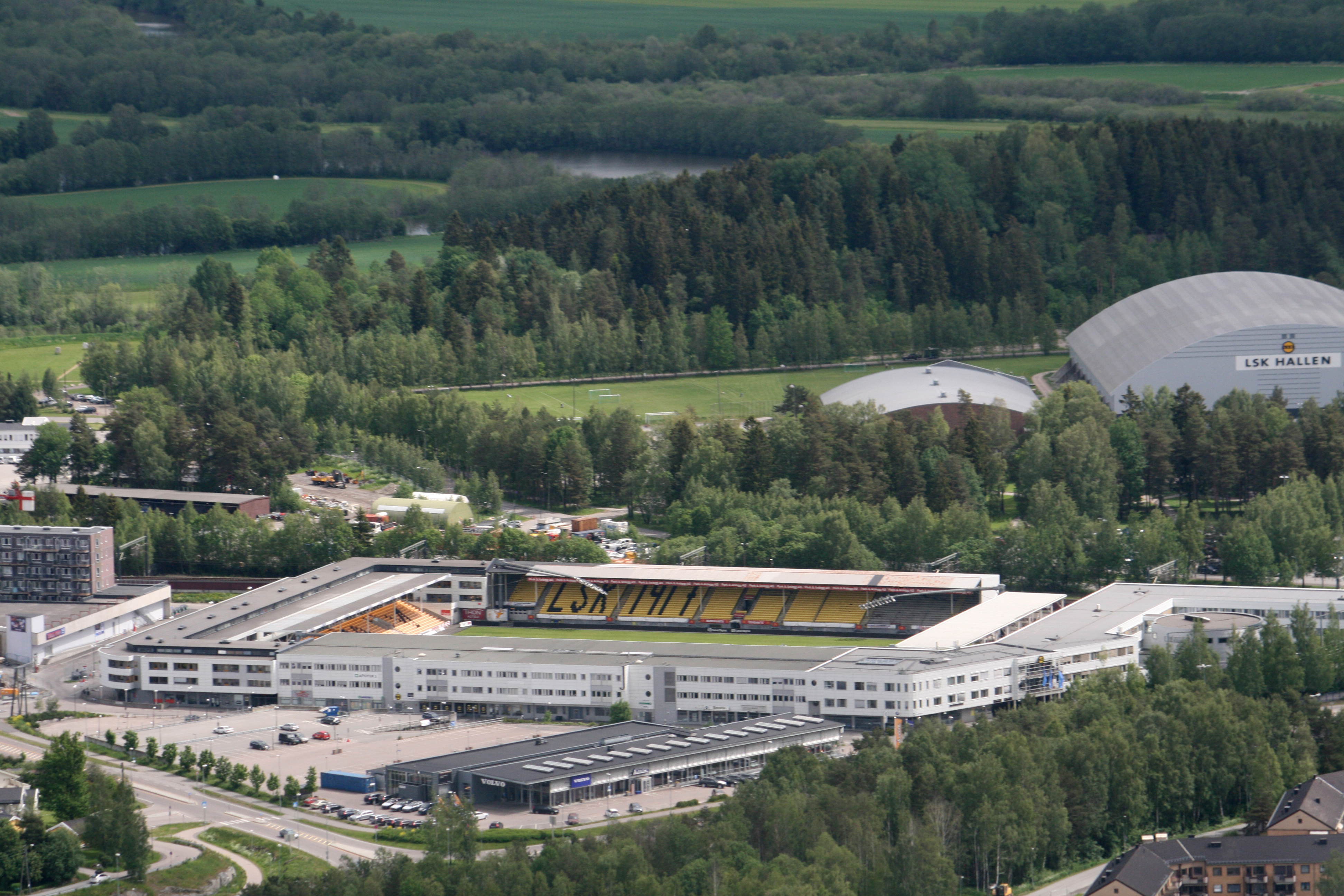 Aerial photograph from June 14th, 2015.